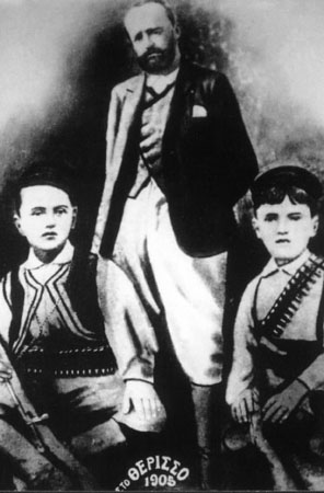 Eleftherios and his sons Kyriakos and Sophoklis Venizelos|Sophoklis at Therissos in 1905